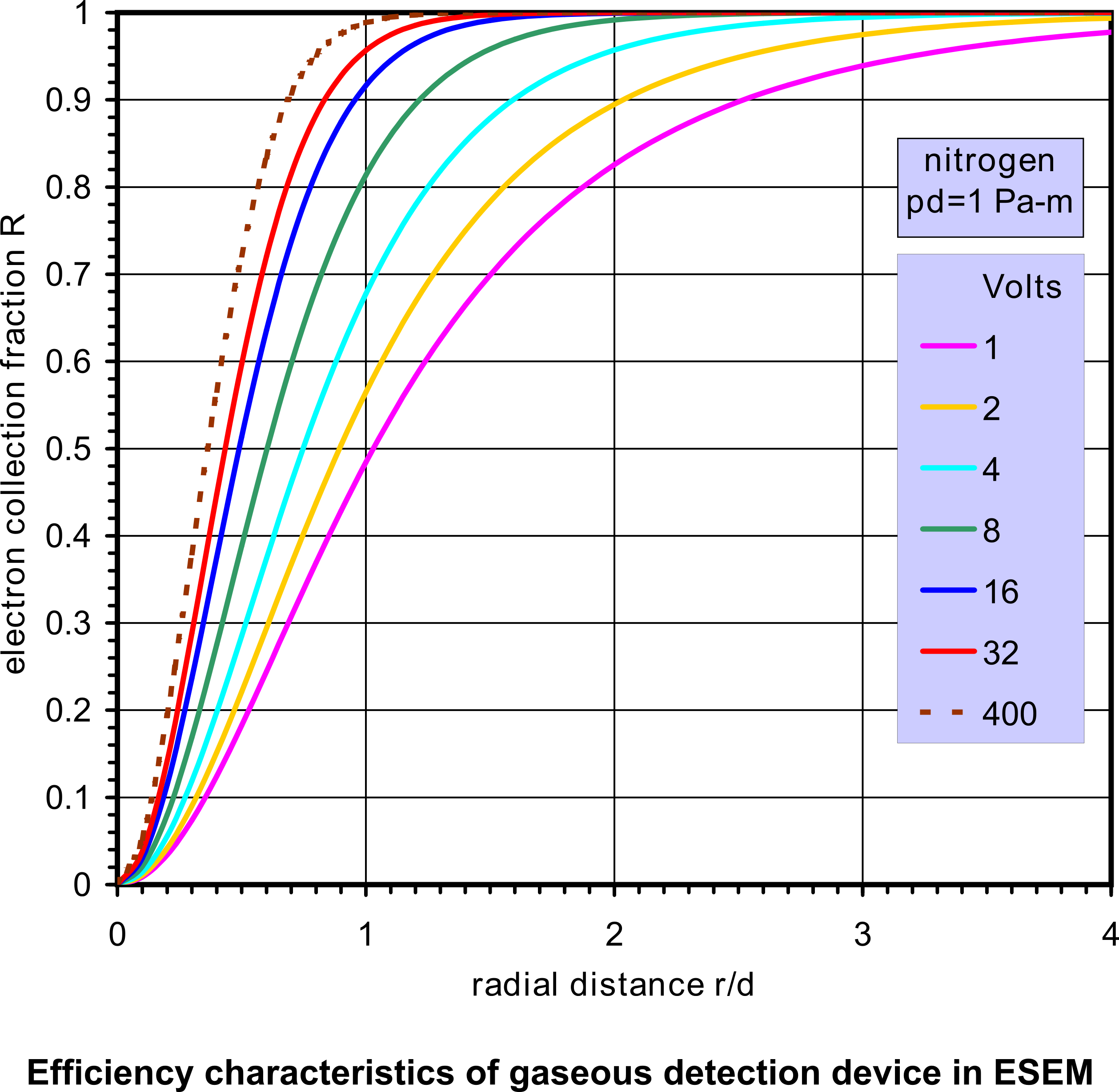 Efficiency characteristics of gaseous detection device used in ESEM with parallel electrodes at distance d, nitrogen gas at pressure p and fixed pd=1 Pa-m. Curves give the fraction of secondary electrons collected within radius r of the anode biased at the corresponding voltage shown, versus r/d.